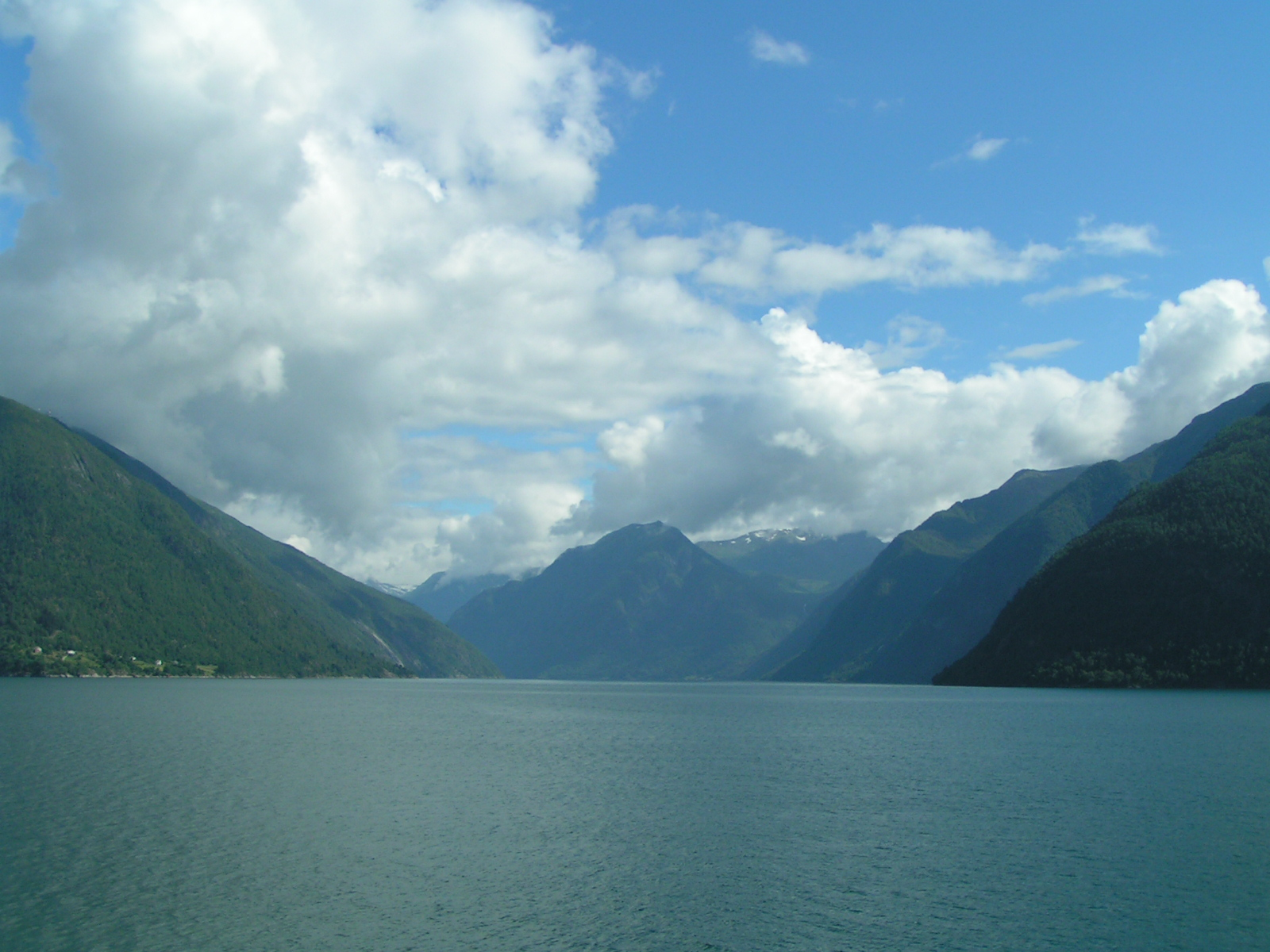 The fjord Fjærlandsfjorden in Sogndal municipality in Sogn og Fjordane county in Norway.